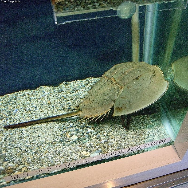 カブトガニ（Tachypleus tridentatusen:Horseshoe crab）